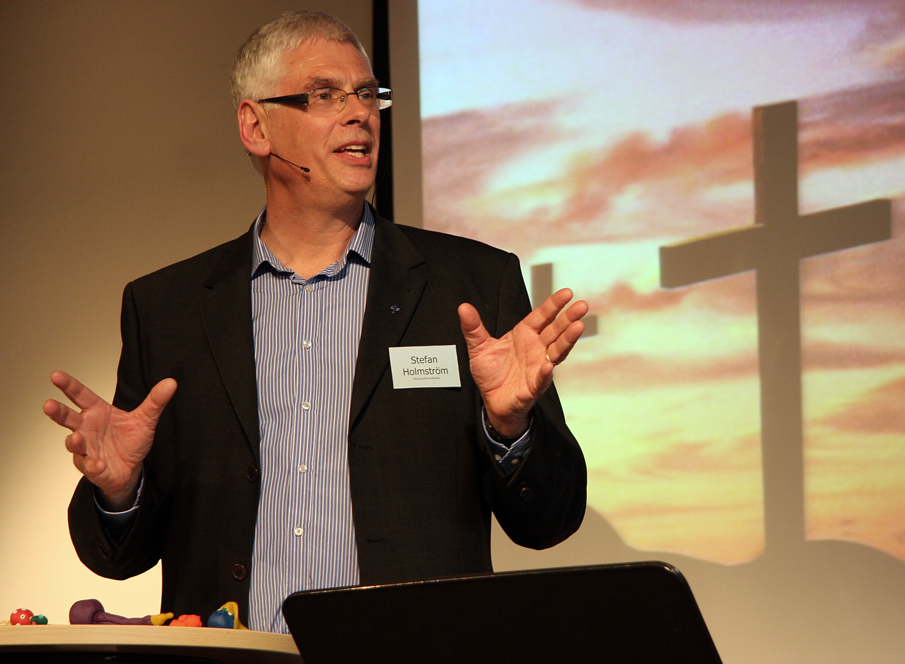 Stefan Holmström, director of the Swedish Evangelical Mission.